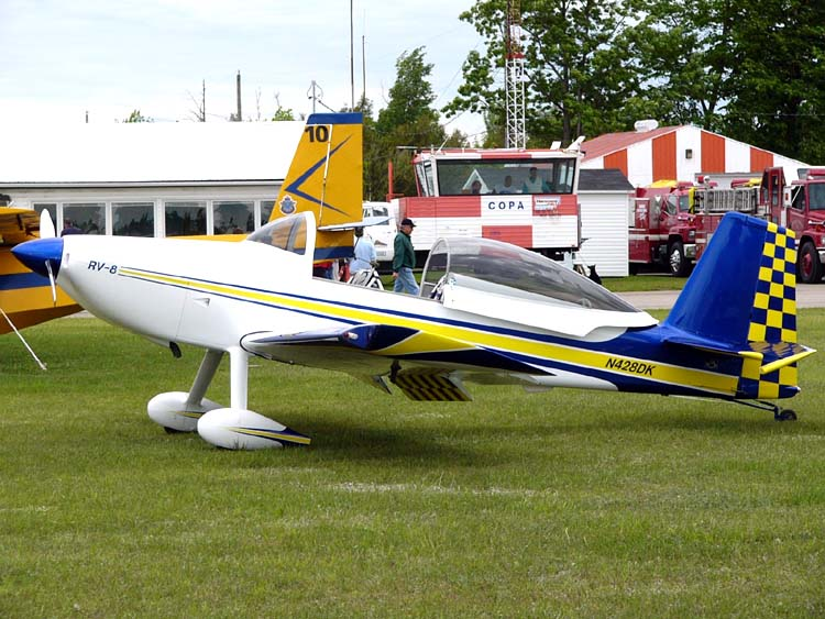 RV-8 (N4280K) at Smiths Falls, Ontario. I took this photo